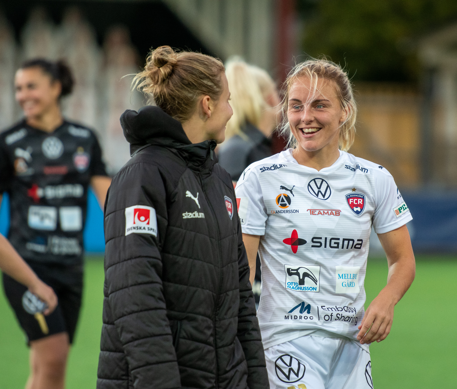 Mimmi Larsson etter match mot Örebro 24.juli 2020